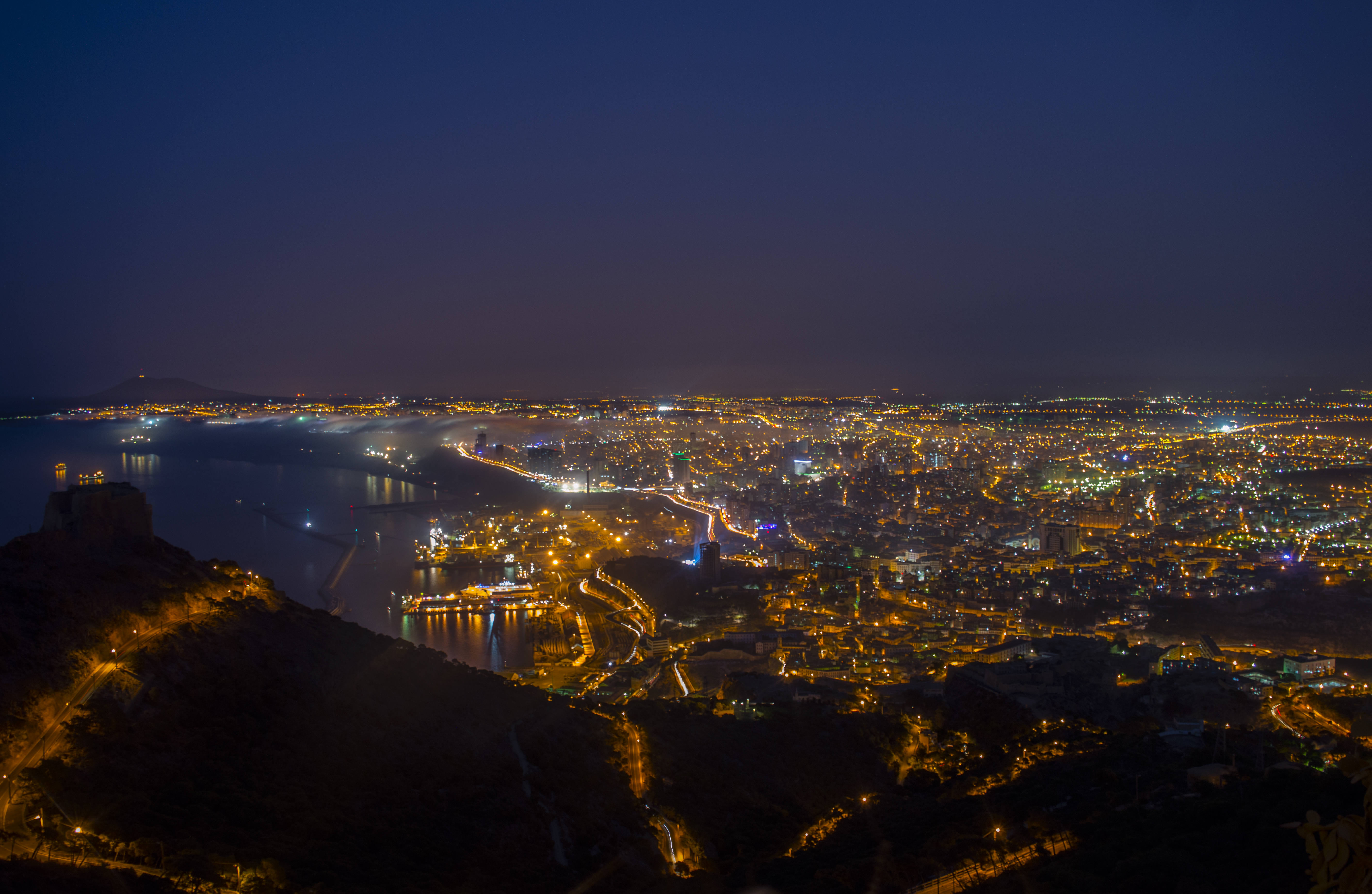 A view of Oran from the mountain. Using NikonD3200